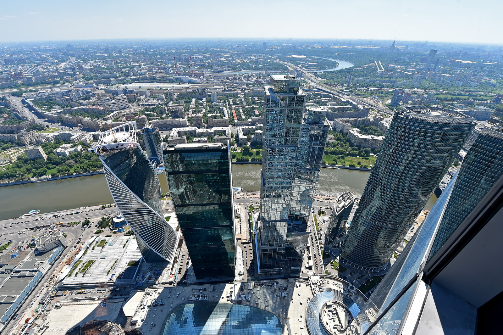 Moscow International Business Center